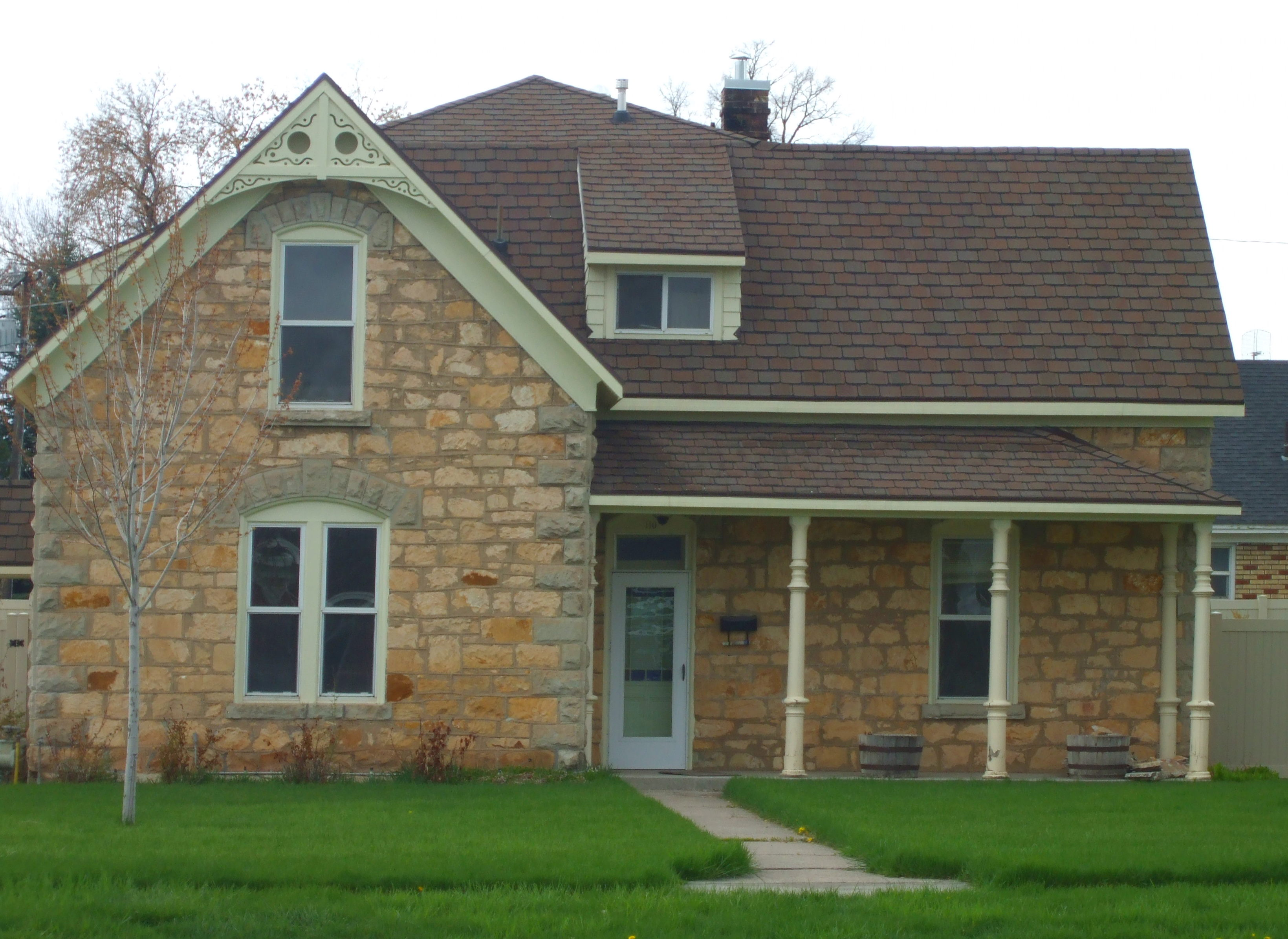 The Matthias Cowley House, the historic former home of Matthias F. Cowley, in Preston, Idaho, United States.